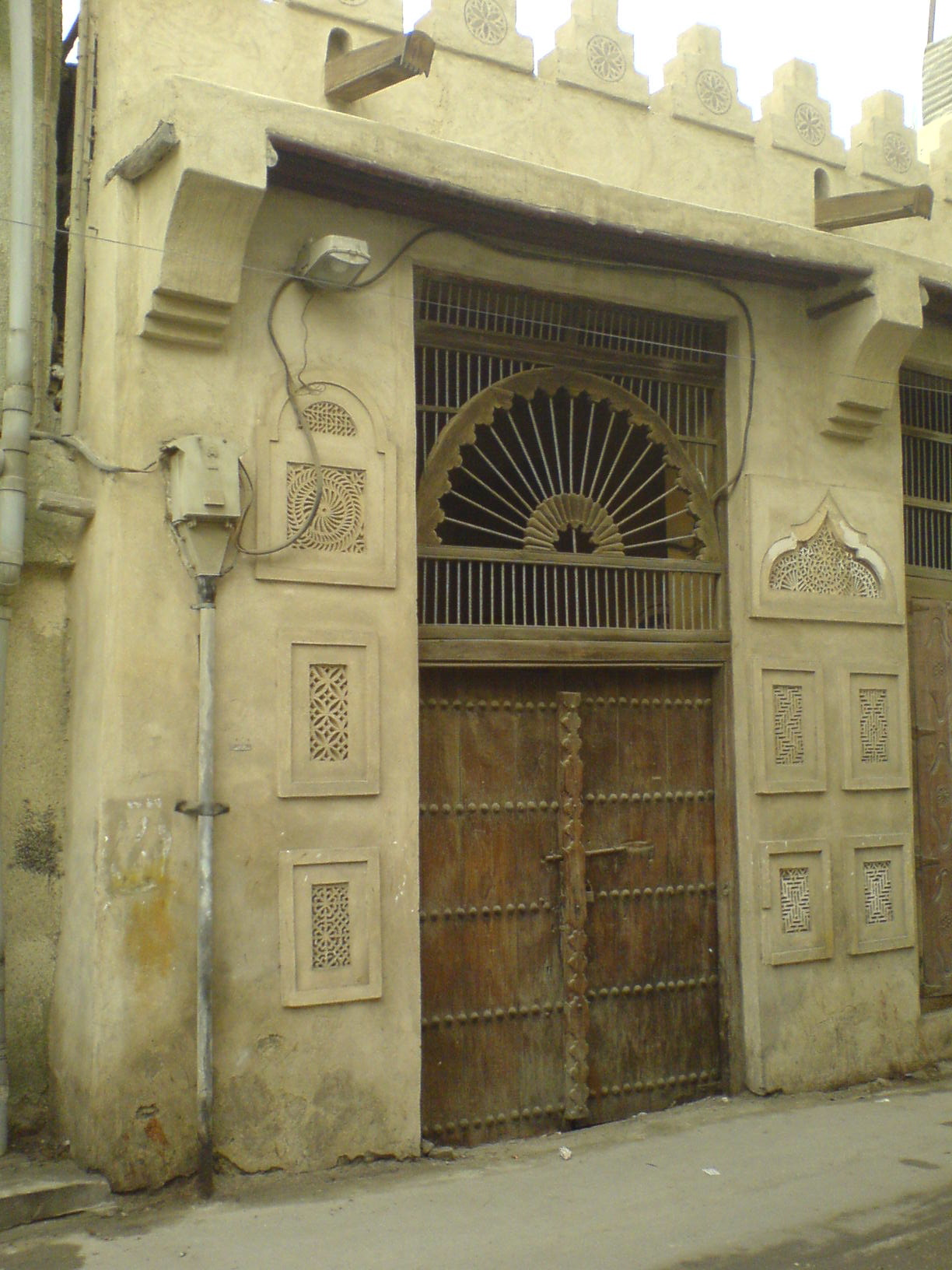 Doorway of residence in traditional Bahraini architecture, in Muharraq, Bahrain